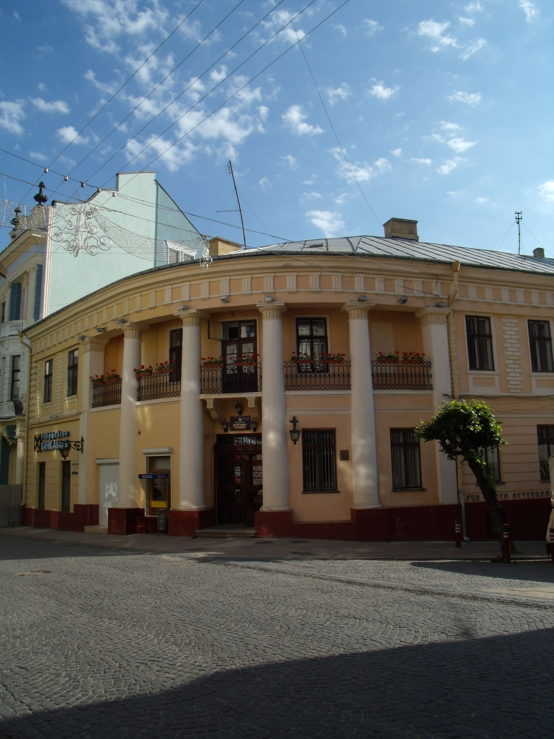 Chernivtsi, Kobylianska house 3